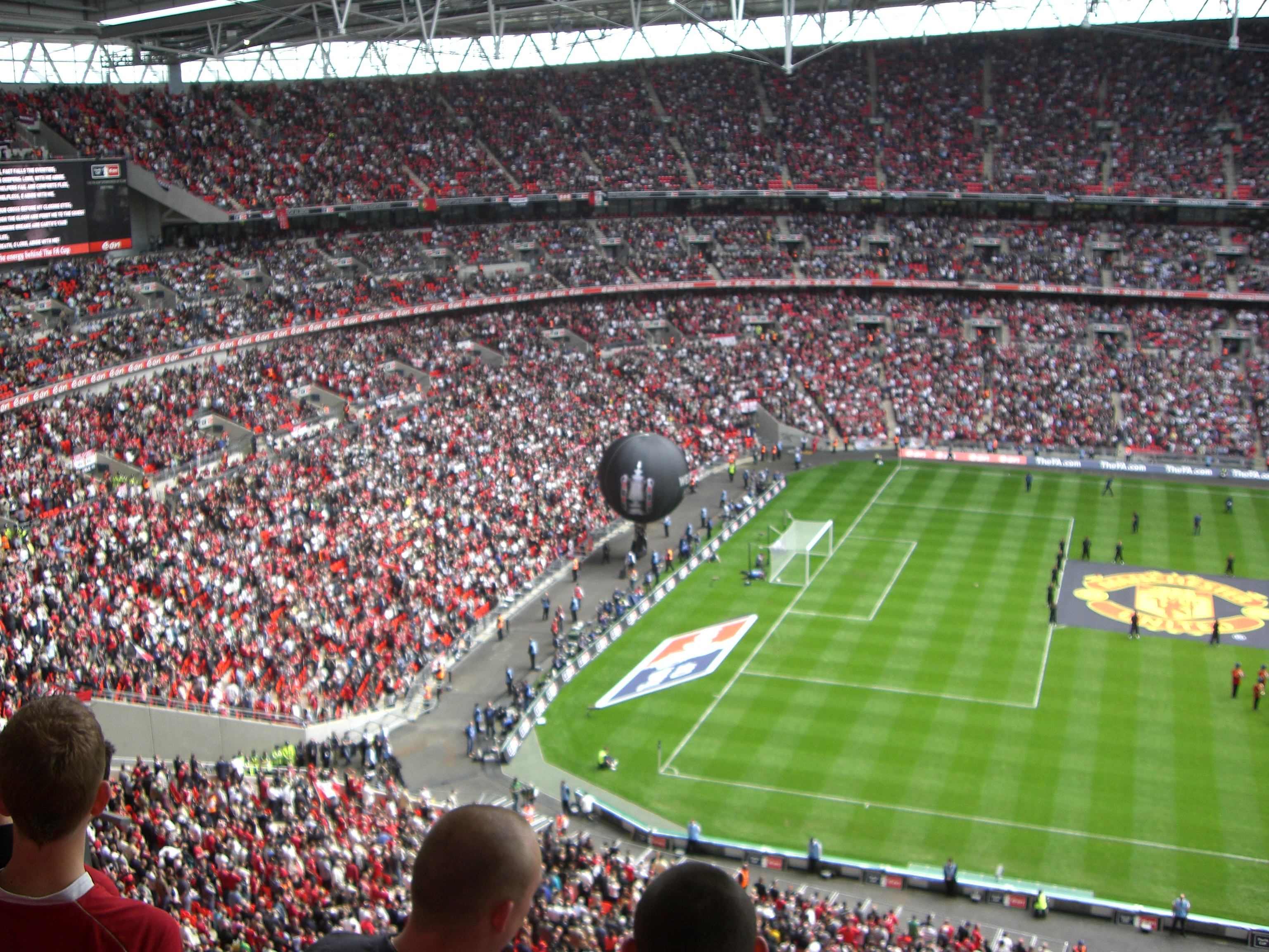 FA-cup final at New Wembley: Chelsea vs Man. United 0-1 a.e.t.